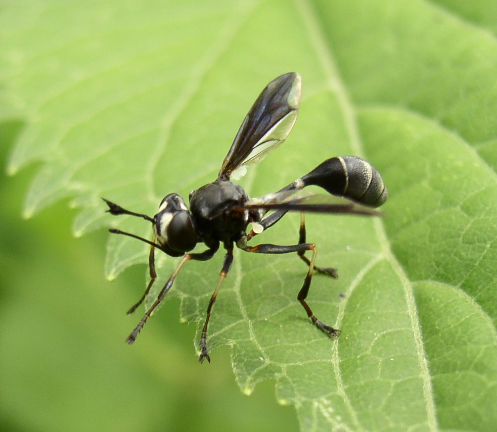 Male conopid fly, Physocephala tibialis. Pennypack Restoration Trust, Montgomery County, Pennsylvania, USA.